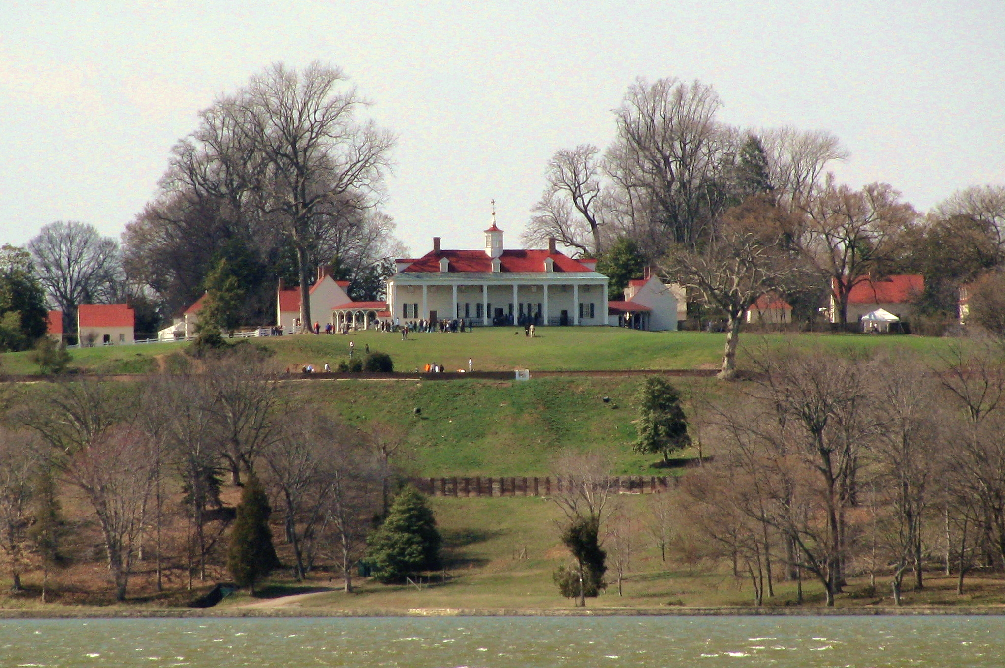 Mount Vernon seen from the Potomac River.